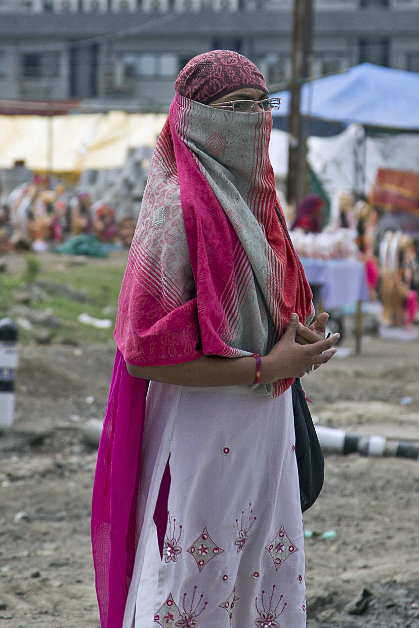 Covered in pink